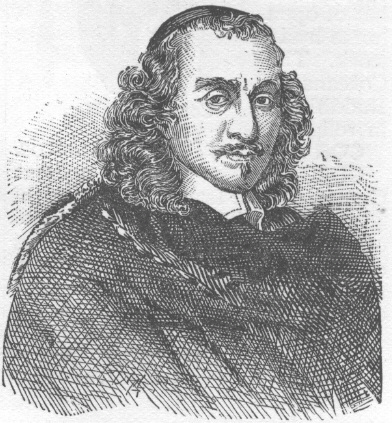 Portrait of Pierre Corneille Source: 1881 Young Folks' Cyclopedia of Persons and Places, John D. Champlin. (Henry Holt, Baltimore, Maryland, USA)